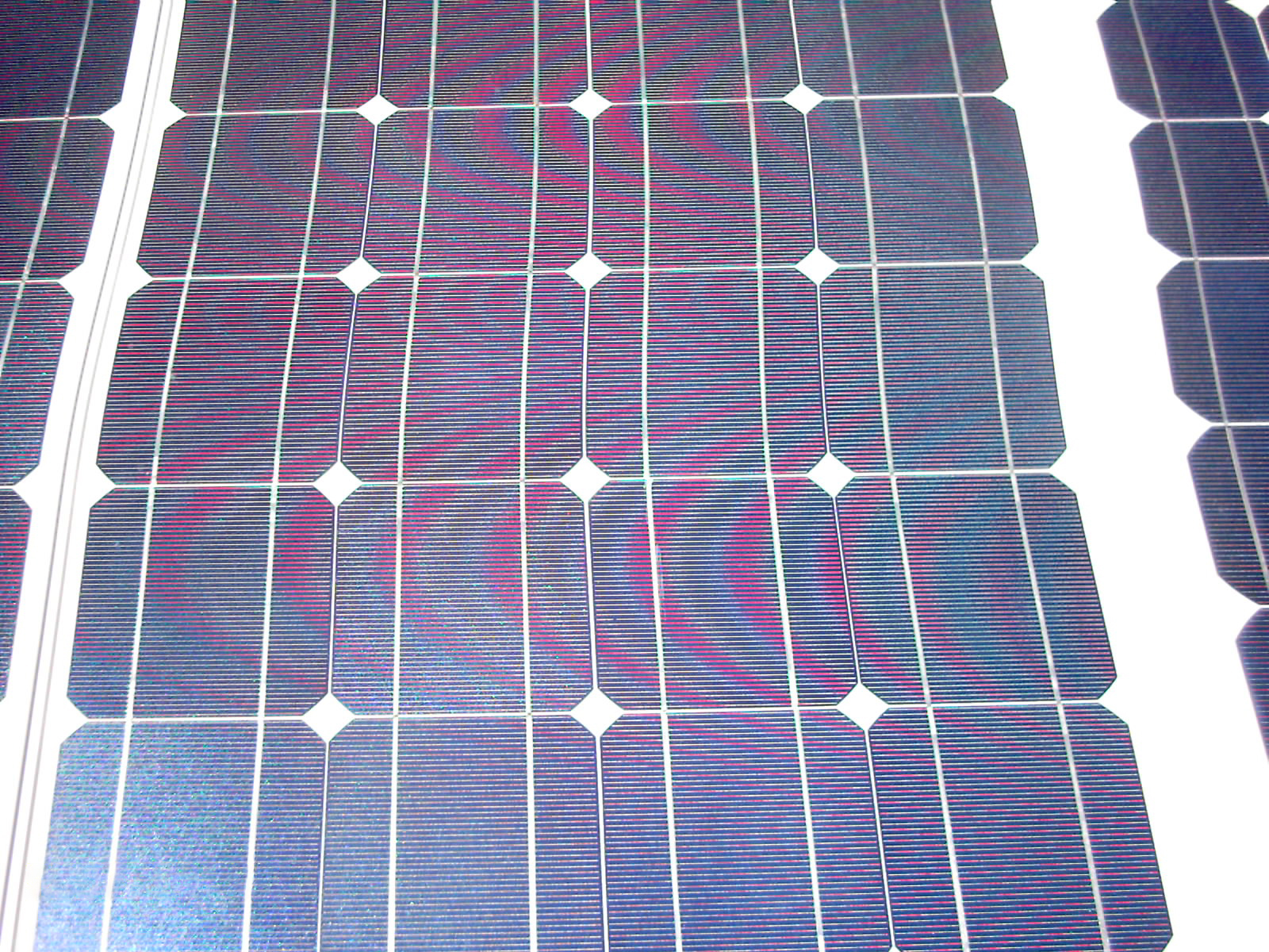 Silicon photovoltaic array